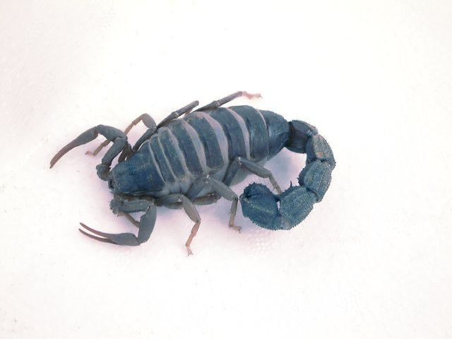 Parabuthus transvaalicus - pregnant female